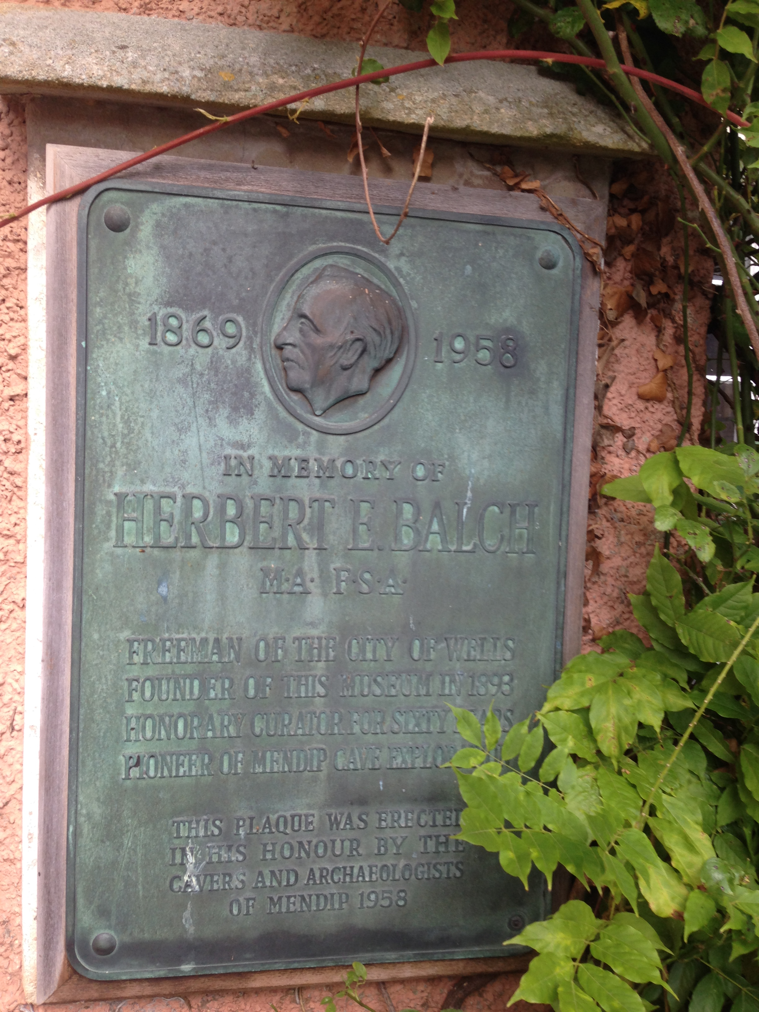 Plaque on Wells Museum to Herbert E Balch